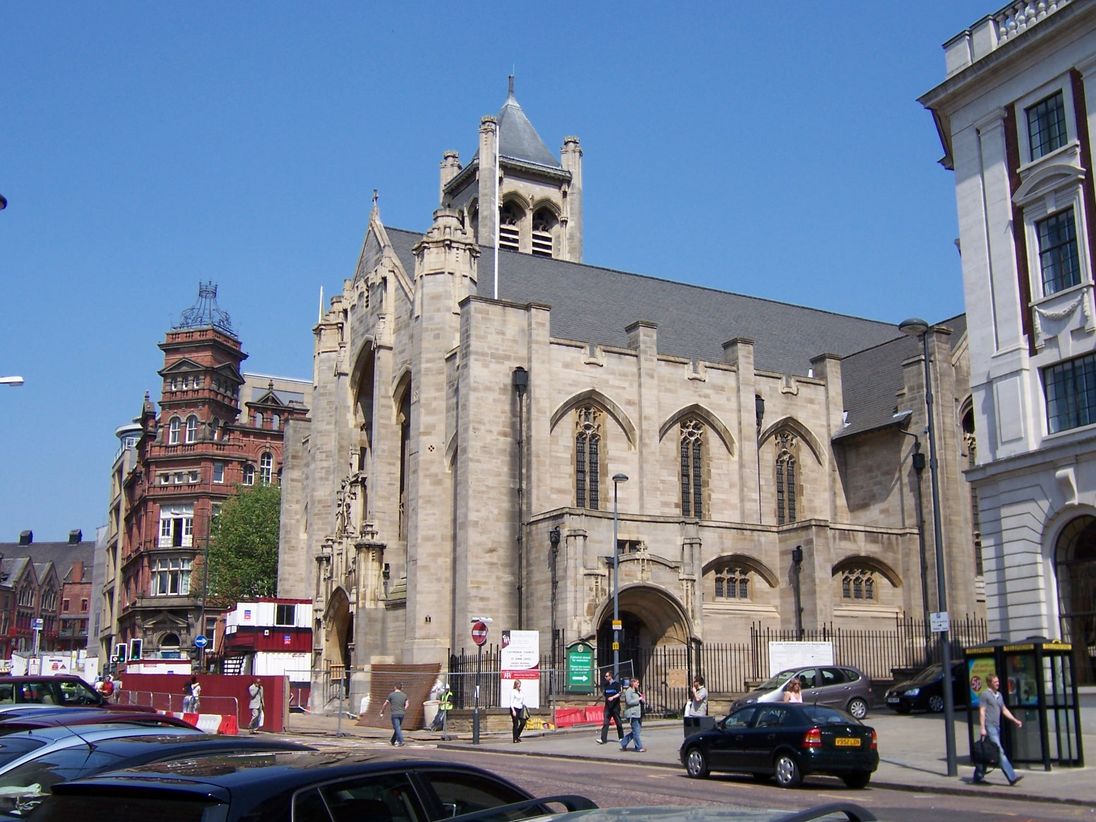 St Anne's Cathedral (Roman Catholic) 1901-1904, Cookridge Street in Leeds, West Yorkshire (England)